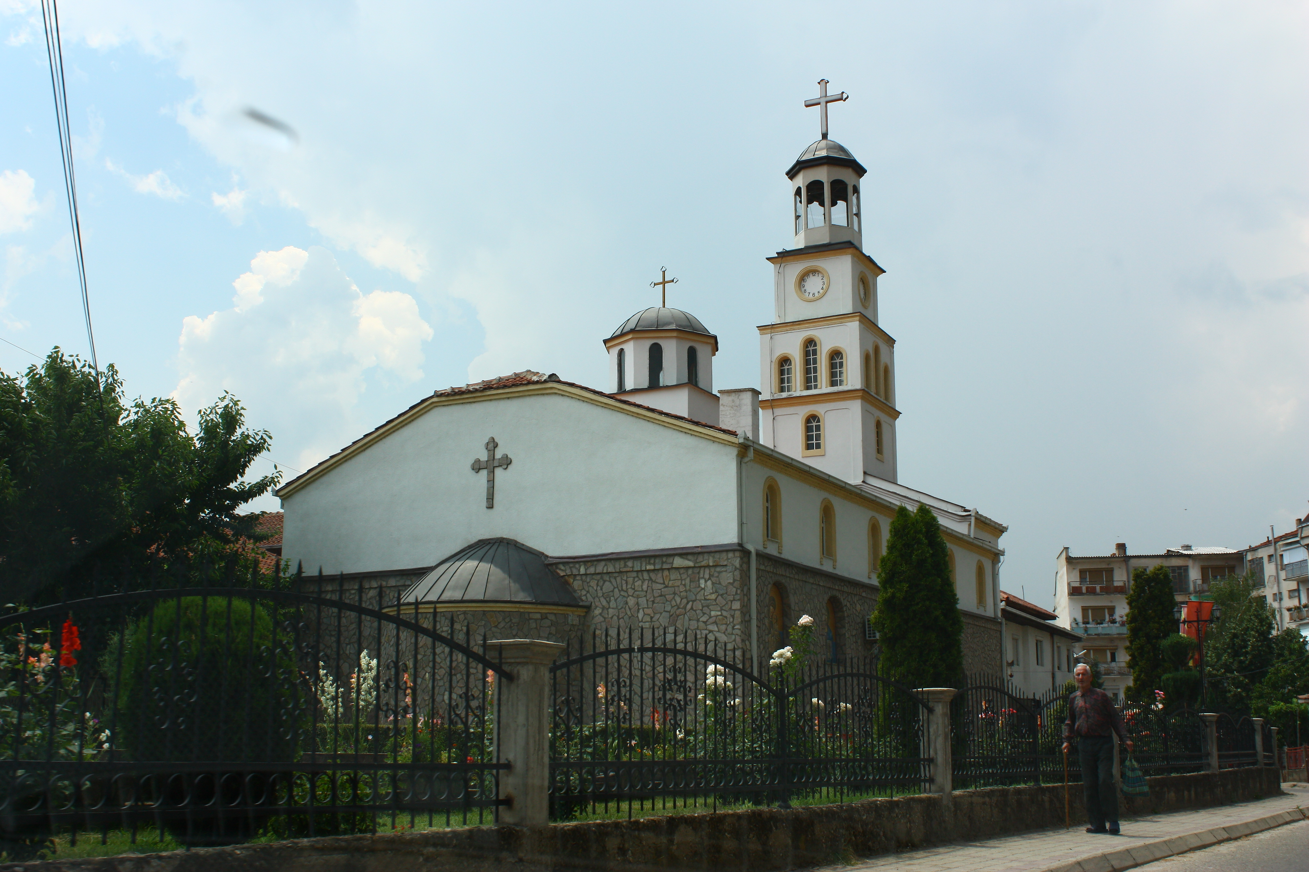 St. Michael the Archangel Church in Vinica, Macedonia